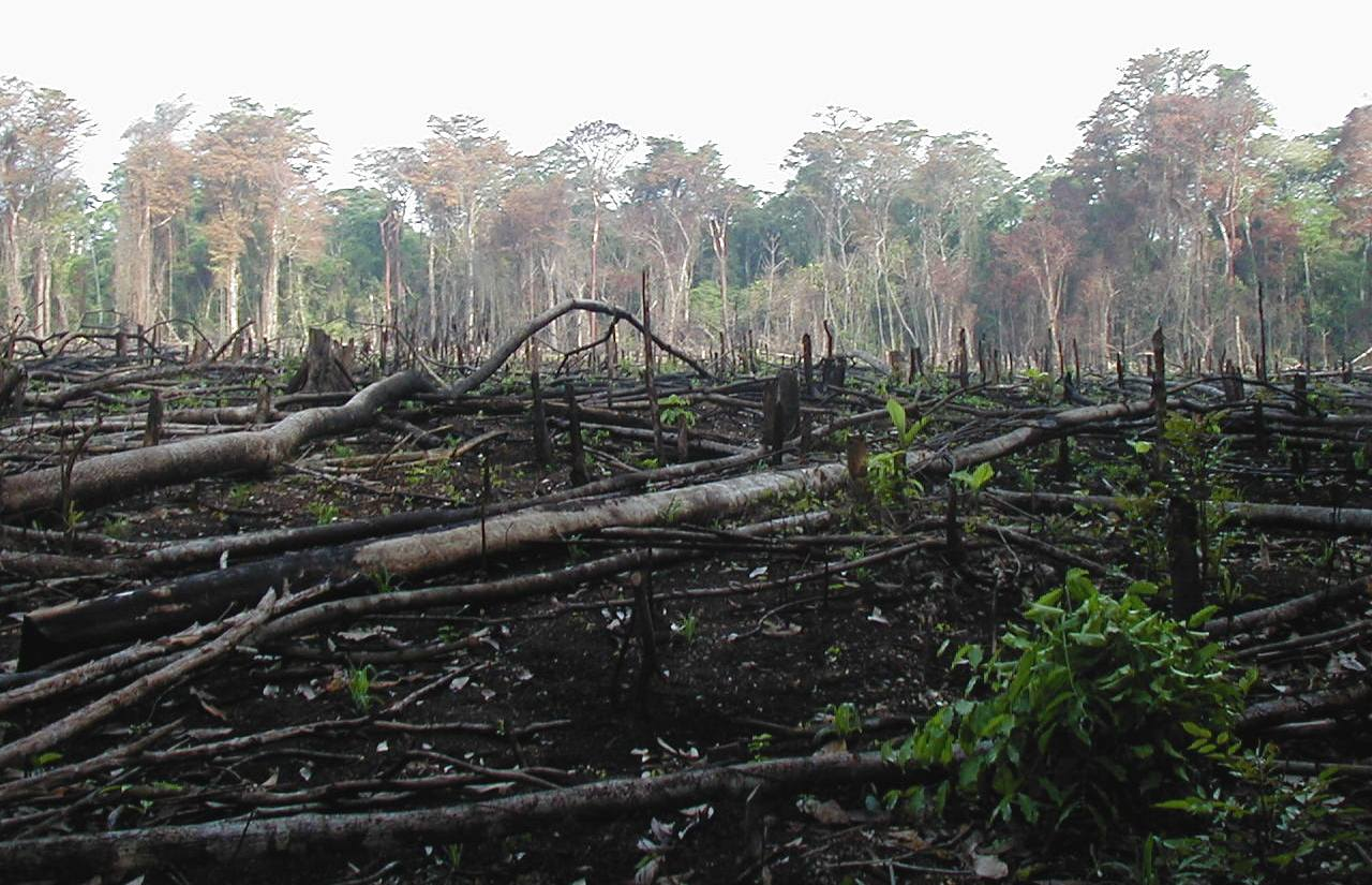 Jungle burned for agriculture in southern Mexico (Lacanja, Chiapas).